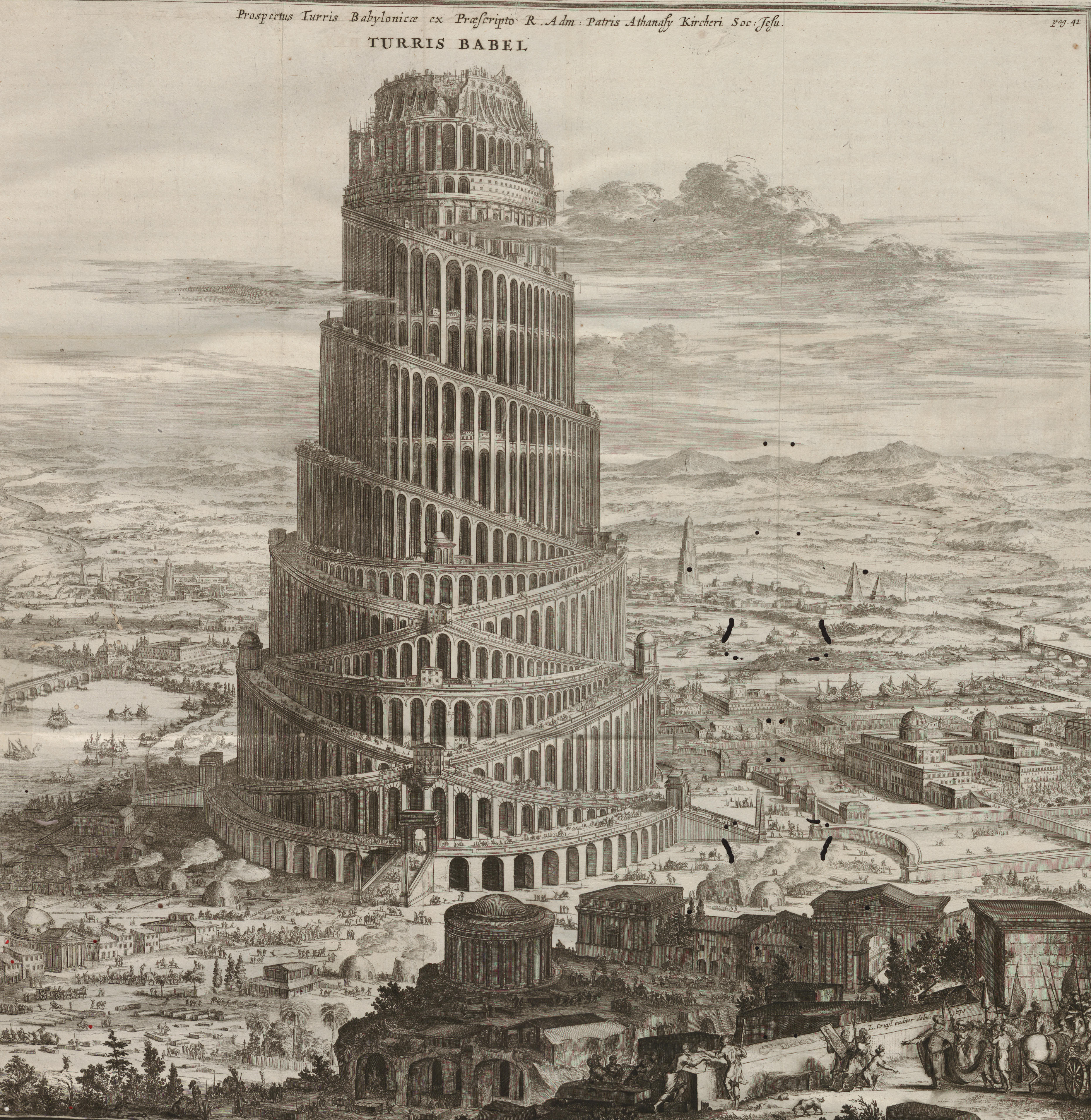 Illustration of the Tower of Babel, published in Turris Babel by Athanasius Kircher.